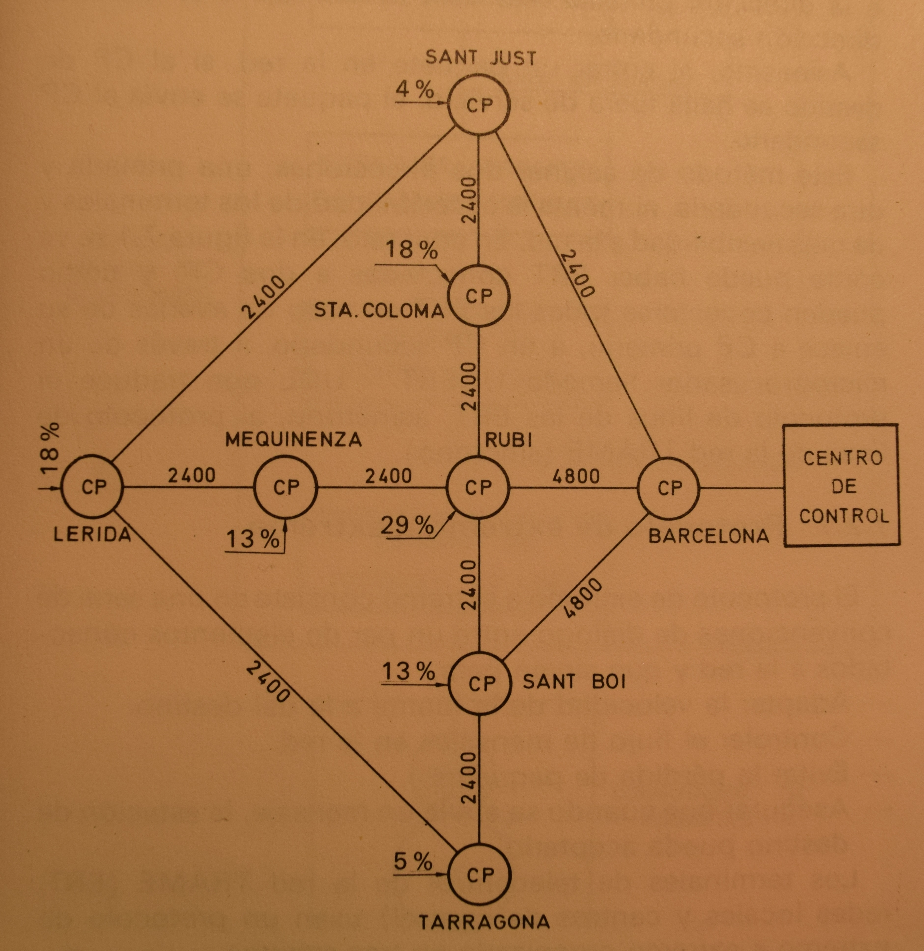 Drawing the TRAME packet switching network by 1980